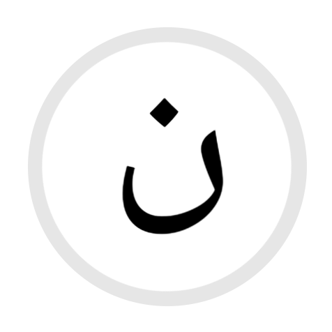 HS Letter (arabic alphabet)